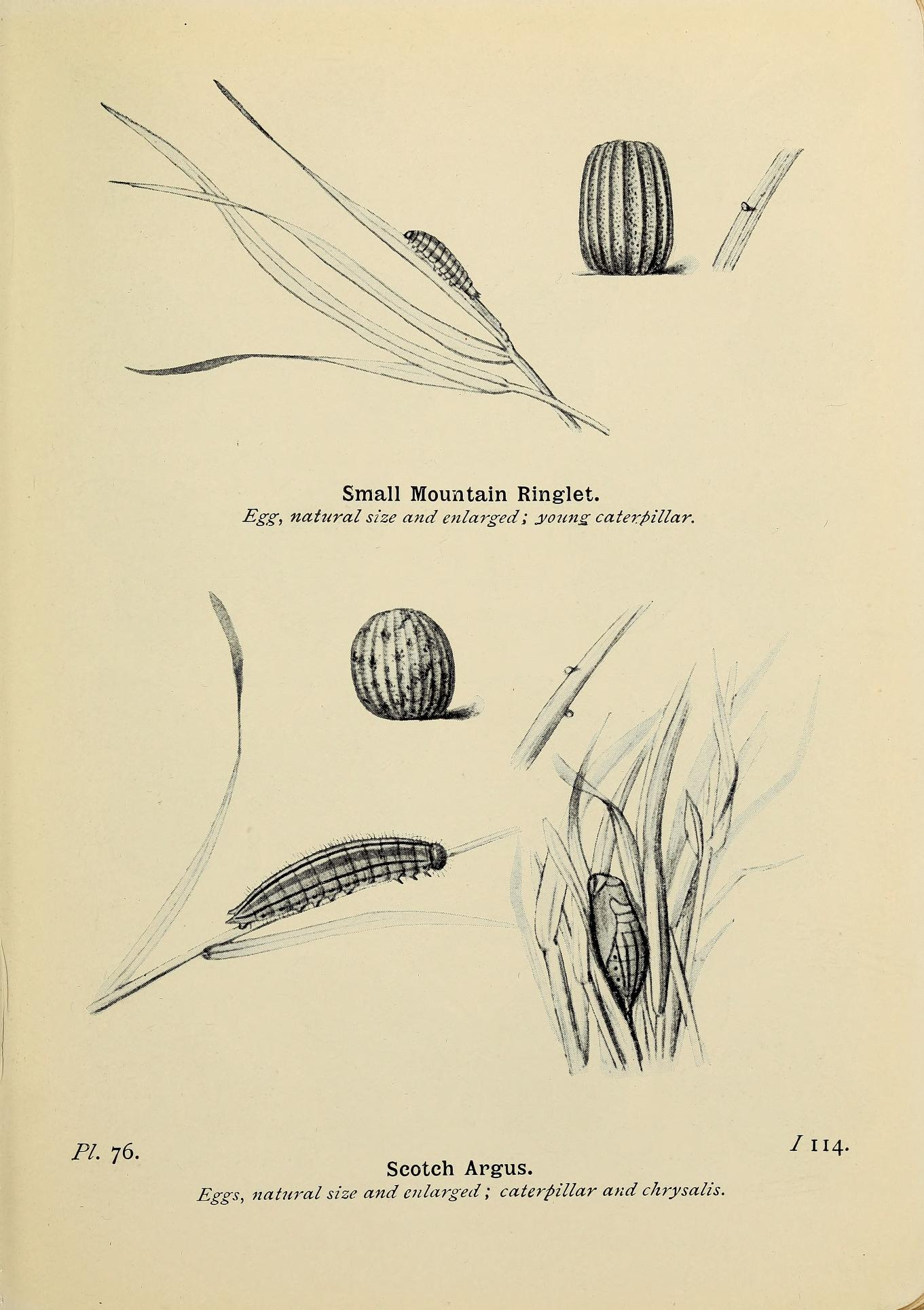 South1906Plate76